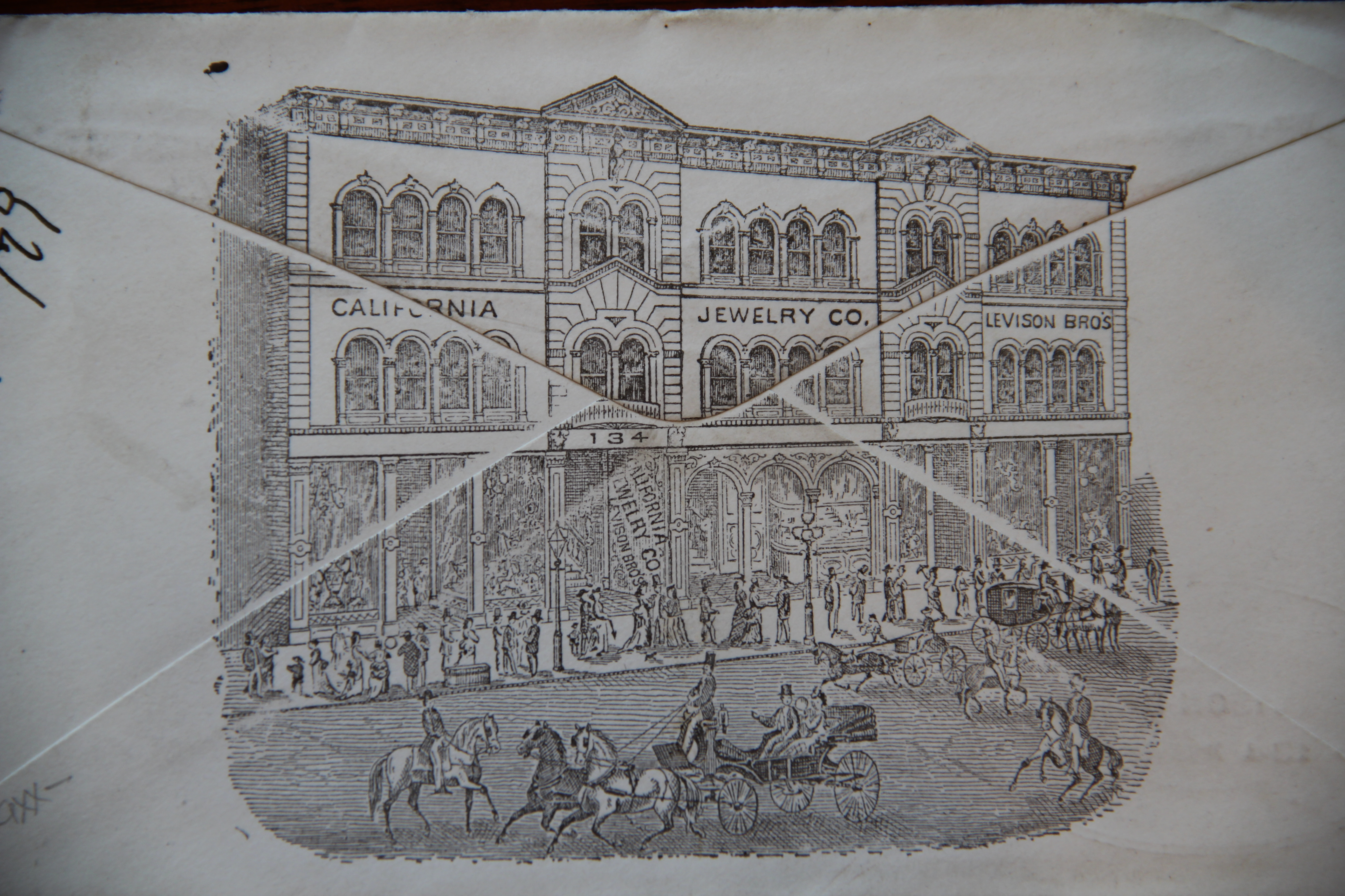 The image is an envelope with woodblock stamp of the Levison Brothers building at 134 Sutter San Francisco in the 1870s. the Levison Brothers company used the woodblock and ink stamp to make an inked image of their headquarters building on the letters they mailed out to clients around the USA. The building no longer exists.